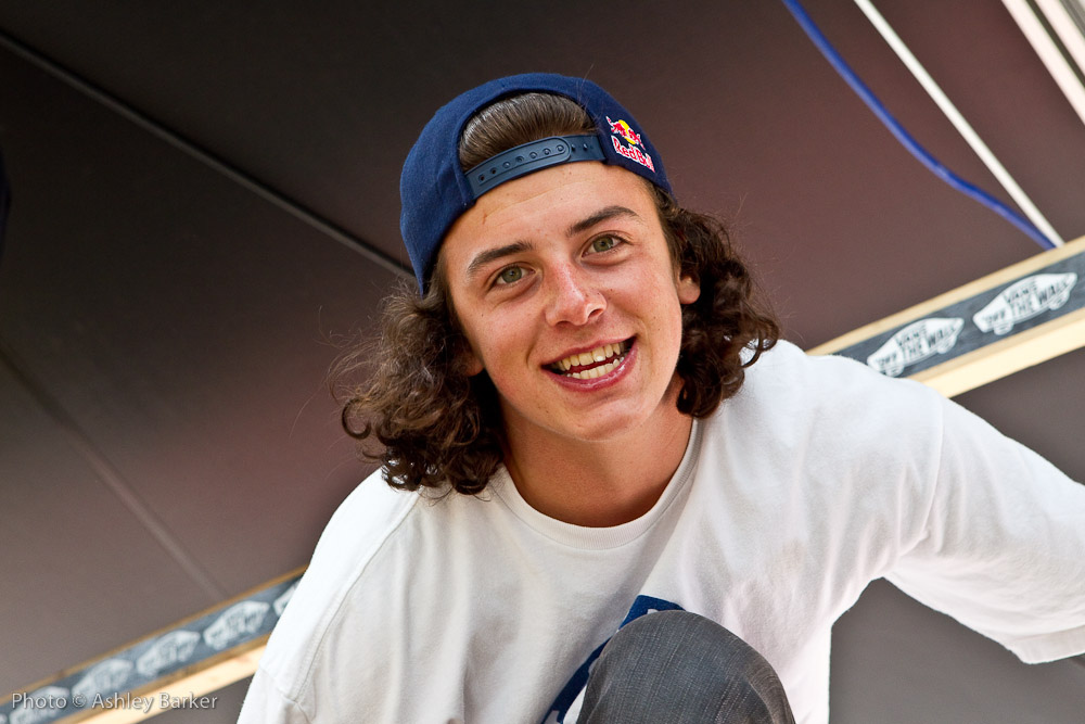 Mark McMorris at the 2012 Camp of Champions.